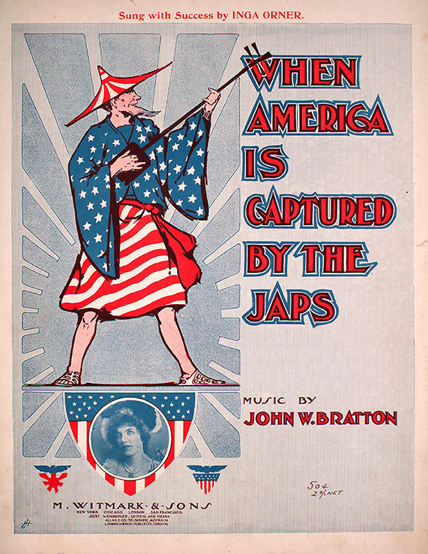 Sheet music cover image of 'When America is Captured by the Japs' by Paul West and John W Bratton, New York, 1905. The singer Inga Ørner is portrayed in the circle